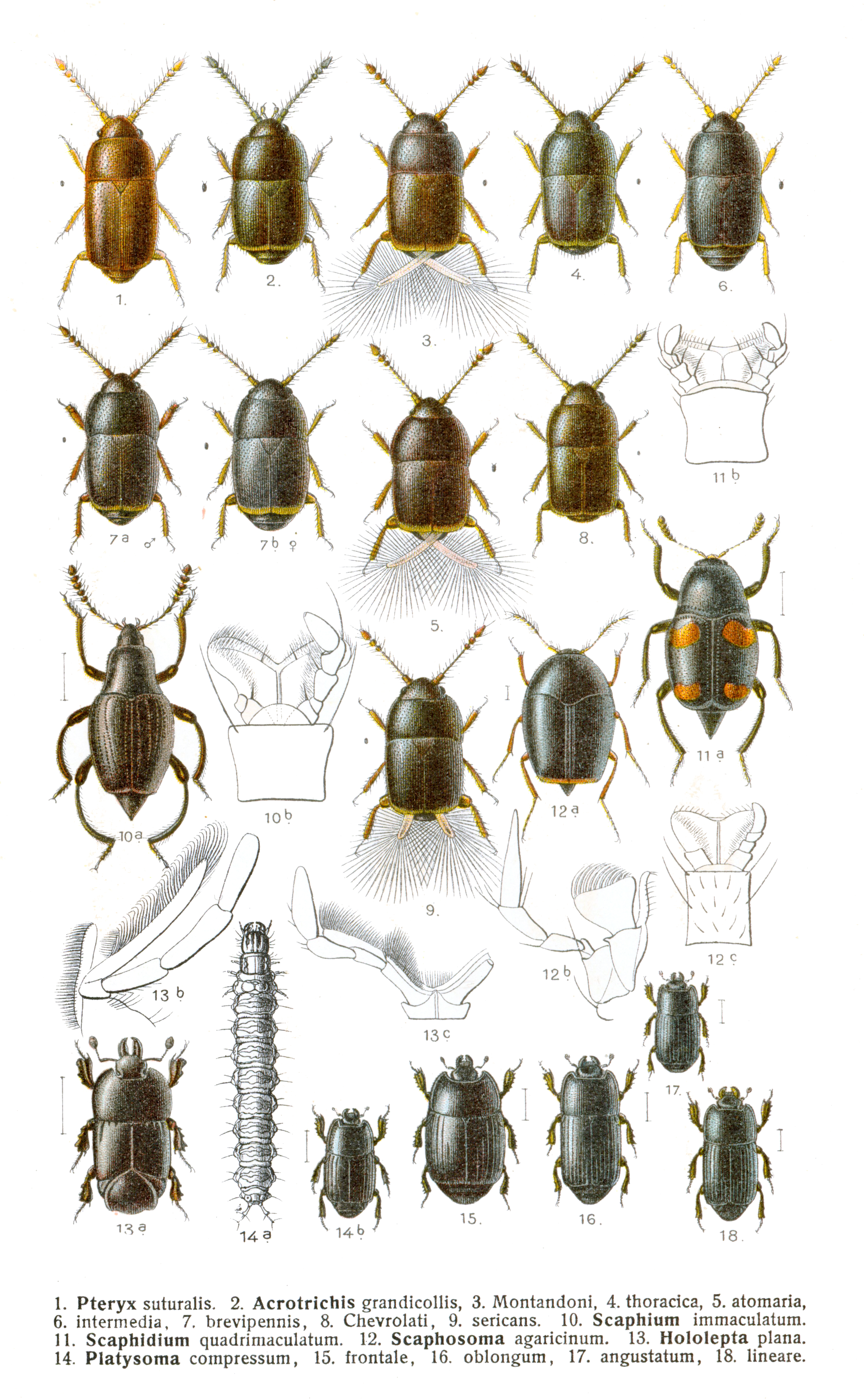 See image for index to numbers. Pteryx suturalis Heer. = Pteryx suturalis (Heer, 1841), adult from dorsal Acrotrichis grandicollis Mnnh. = Acrotrichis grandicollis (Mannerheim, 1844), adult from dorsal [Acrotrichis] Montandoni Allib. = Acrotrichis montandoni (Allibert, 1844), adult from dorsal [Acrotrichis] thoracica Waltl. = Acrotrichis thoracica (Waltl, 1838), adult from dorsal [Acrotrichis] atomaria Degeer = Acrotrichis thoracica (De Geer, 1774), adult from dorsal [Acrotrichis] intermedia Gillm. = Acrotrichis intermedia (Gillmeister, 1845), adult from dorsal [Acrotrichis] brevipennis Er. = Acrotrichis brevipennis (Erichson, 1845) (7a: adult male from dorsal, 7b: adult female from dorsal) [Acrotrichis] Chevrolati Allib. = Acrotrichis sericans (Heer, 1841) f. chevrolati, adult from dorsal [Acrotrichis] sericans Heer. = Acrotrichis sericans (Heer, 1841), adult from dorsal Scaphium immaculatum Oliv. = Scaphium immaculatum (Olivier, 1790) (10a: adult from dorsal, 10b: labium from ventral) Scaphidium quadrimaculatum Oliv. = Scaphidium quadrimaculatum Olivier, 1790 (11a: adult from dorsal, 11b: labium from ventral) Scaphosoma [sic] agaricinum L. = Scaphisoma agaricinum (Linnaeus, 1758) (12a: adult from dorsal, 12b: maxilla, 12c: labium from ventral) Hololepta plana Fuessly [sic] = Hololepta plana (Sulzer, 1776) (13a: adult from dorsal, 13b: maxillary palps[verification needed], 13c: labial palps[verification needed]) Platysoma compressum Hrbst. = Platysoma compressum (Herbst, 1783) (14a: larva from dorsal, 14b: adult from dorsal) [Platysoma] frontale [sic] Payk. = Eblisia minor (Rossi, 1792), adult from dorsal [Platysoma] oblongum [sic] F. = Cylister elongatus (Thunberg, 1787), adult from dorsal [Platysoma] angustatum Hoffm. = Cylister angustatus (Hoffmann, 1803), adult from dorsal [Platysoma] lineare Er. = Cylister linearis (Erichson, 1834), adult from dorsal